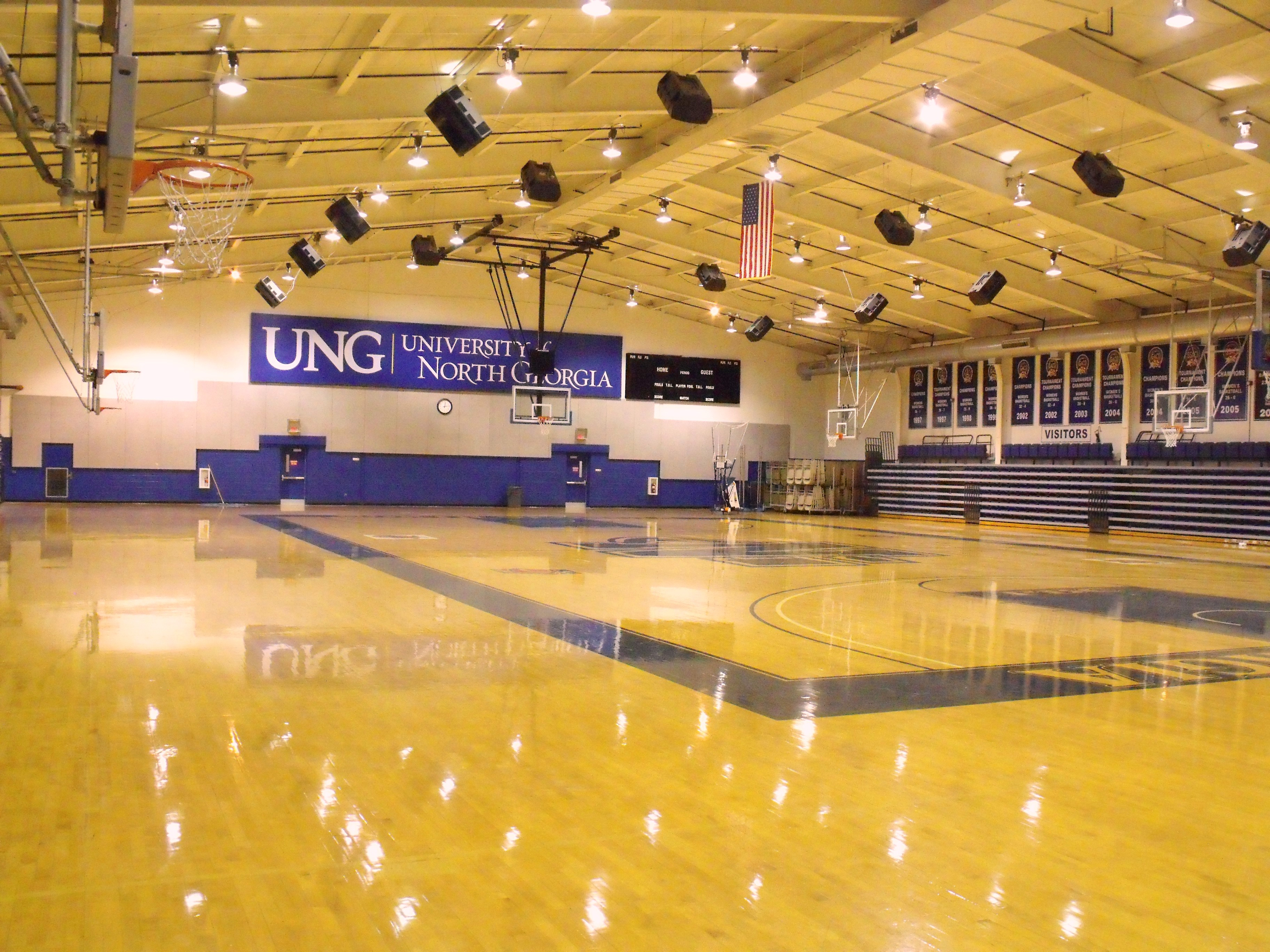 The court used by the UNG basketball team, located in the Memorial Gym at the university's Dahlonega Campus.